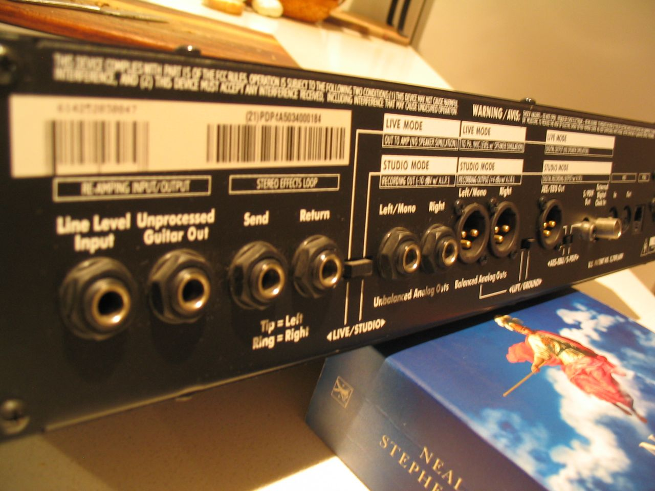 Line 6 Pod Pro 2.0 (rear panel left)